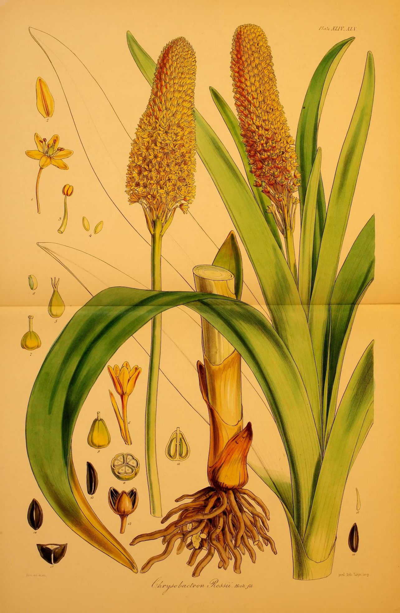 jpg of Plate XLIV.XLV of Hooker's Flora Antarctica. Chrysobactron Rossii Hook. fil.